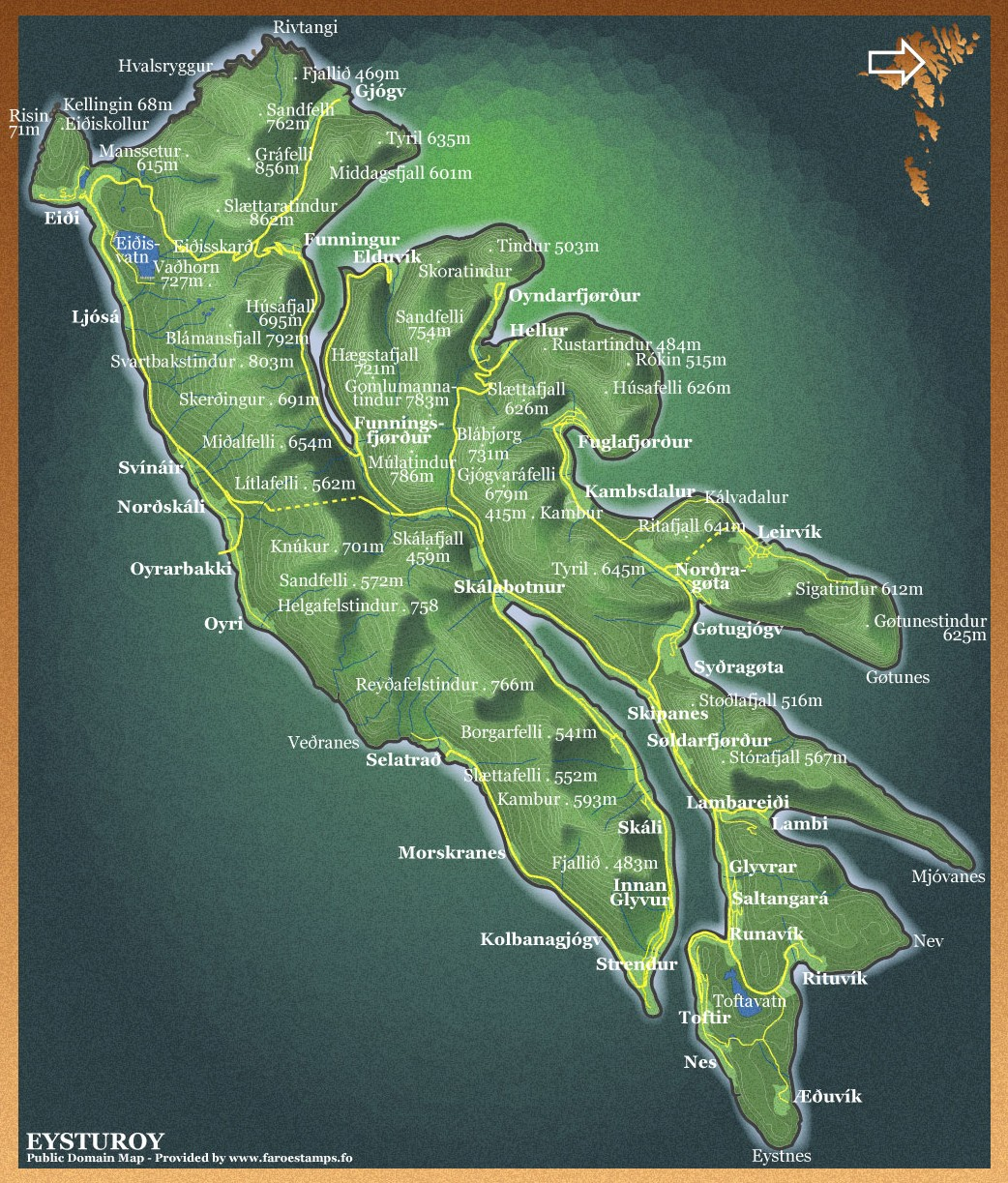 Eysturoy, Faroe Islands